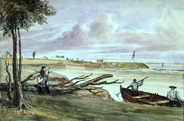 Rapid and Fort - Coteau du Lac, 1840, watercolour with scraping out over pencil on wove paper, 26.900 x 17.600 cm